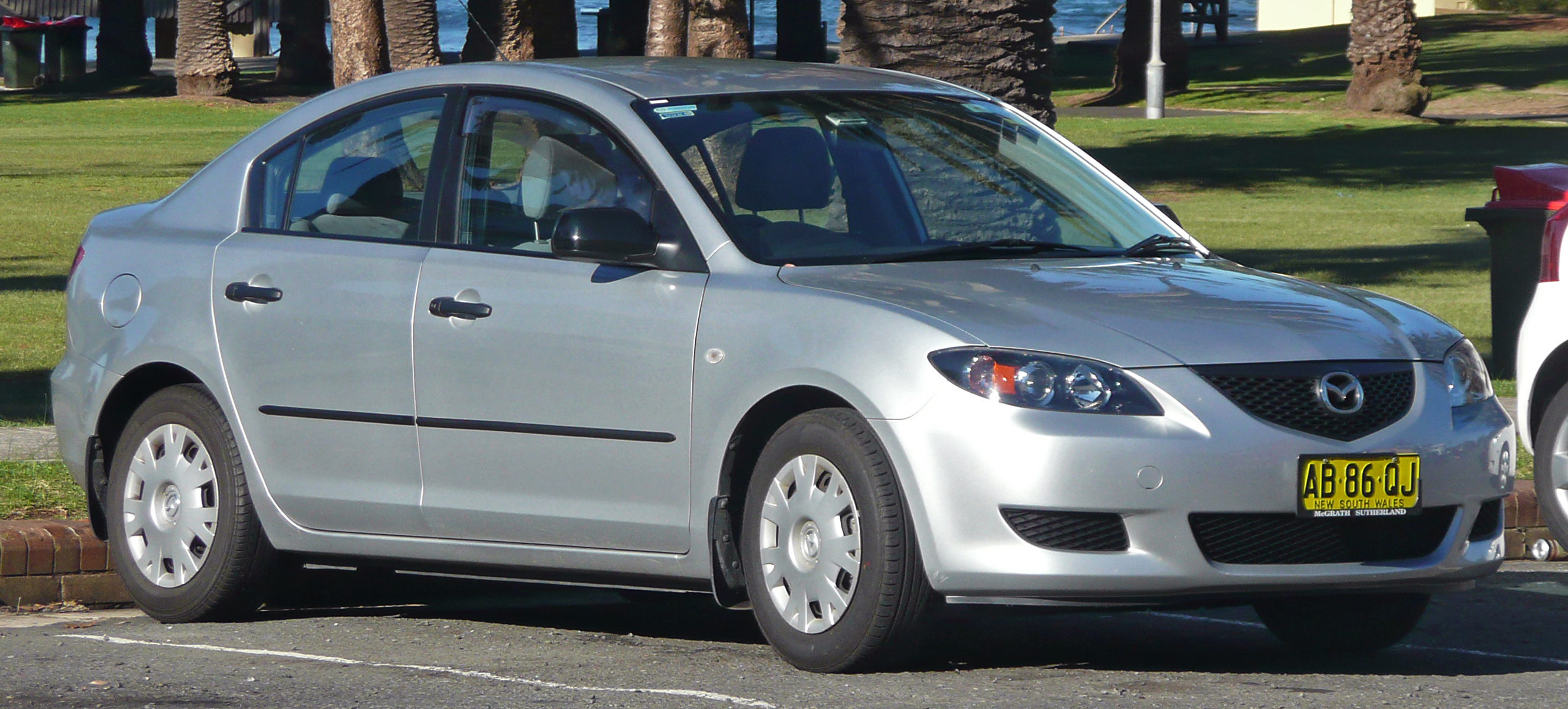 2004 Mazda3 (BK) Neo sedan. Photographed in Cronulla, New South Wales, Australia.